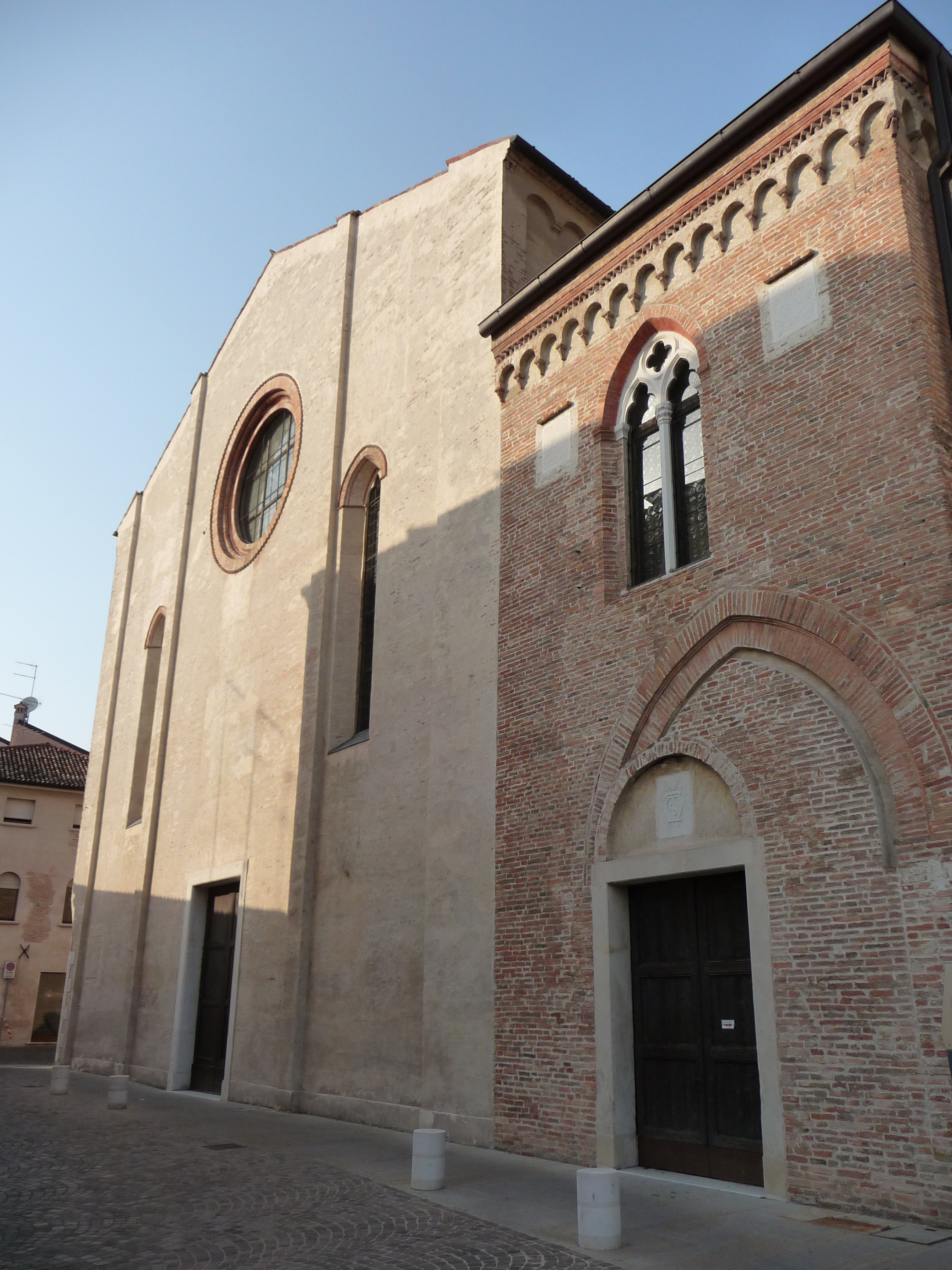 facade of the chiesa di Santa Caterina, in Treviso (IT)